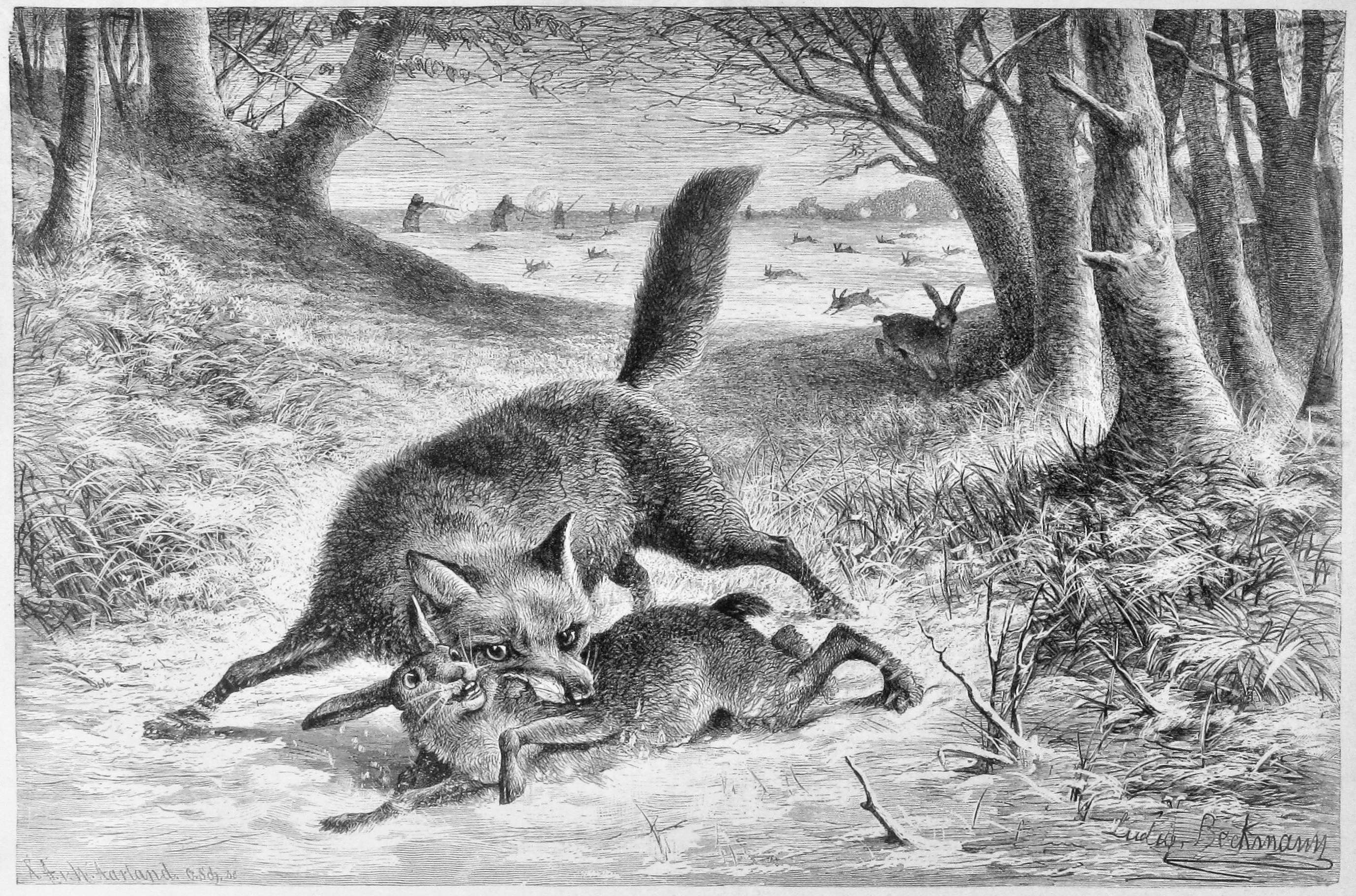 caption: "Reineke auf der Treibjagd. Originalzeichnung von L. Beckmann."